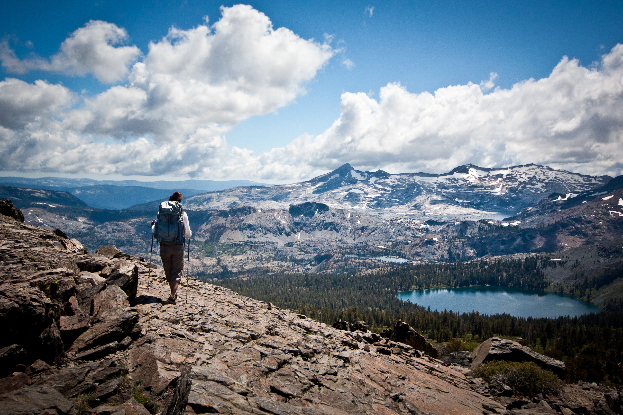 Desolation Wilderness from Mount Tallac, El Dorado County, CA. July 2012.